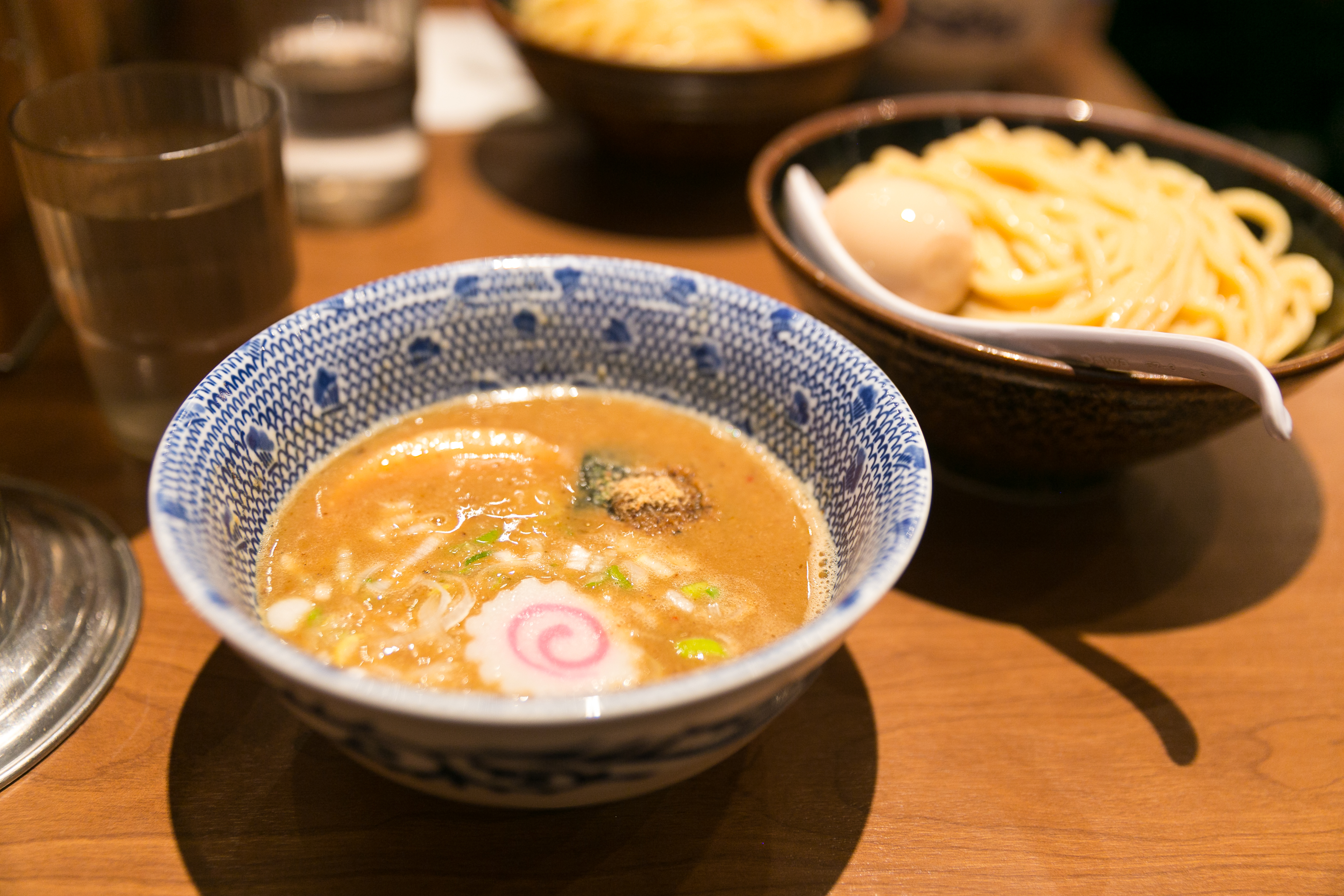 Tsukemen at Rokurinsha, Tokyo, JP Date Visited: December 21, 2014 City Foodsters Facebook | Twitter | Instagram